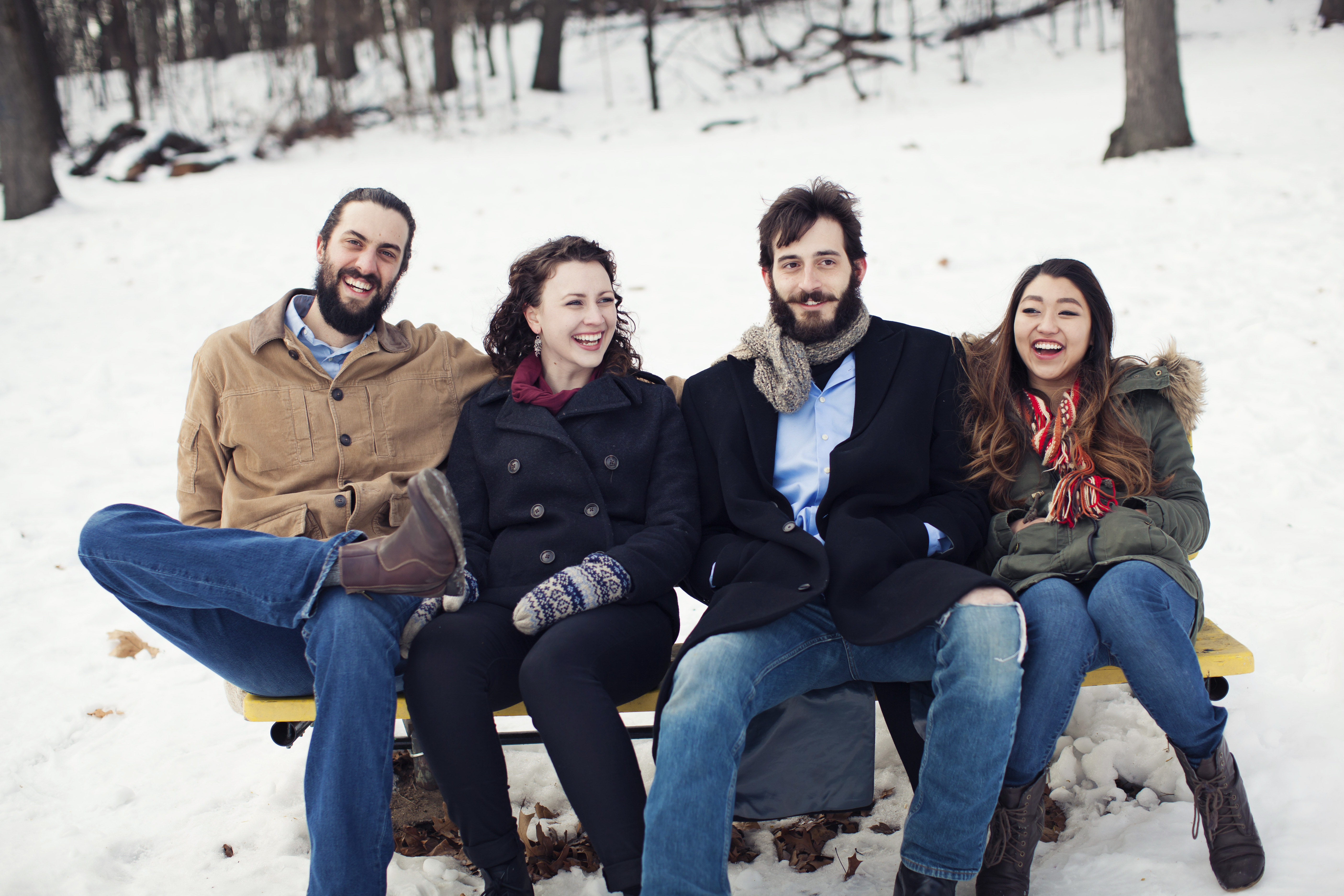 The Crane Wives in Winter 15. Pictured from left to right: Dan, Kate, Ben, and Emilee